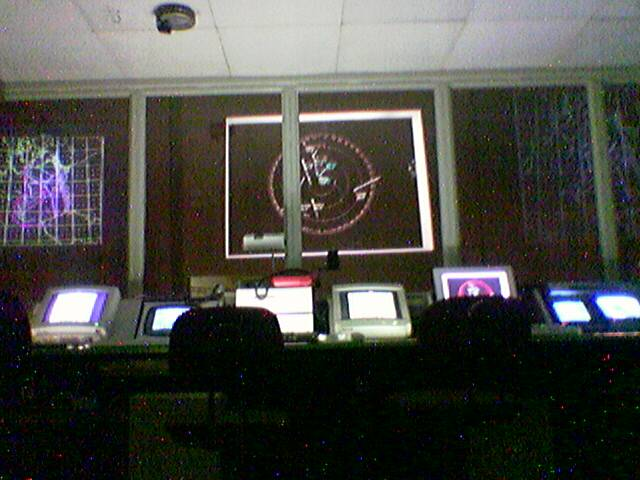 Operations center in the Central Component Headquarters 14 (Bunker Fuchsbau) of the National People´s Army Air Force, here after reconstruction the working position of the Master controller 1994 .